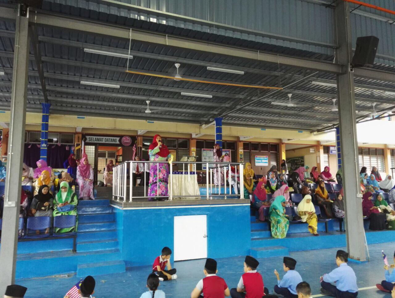 Ucapan Oleh GPK HEM SKKT 1 2017